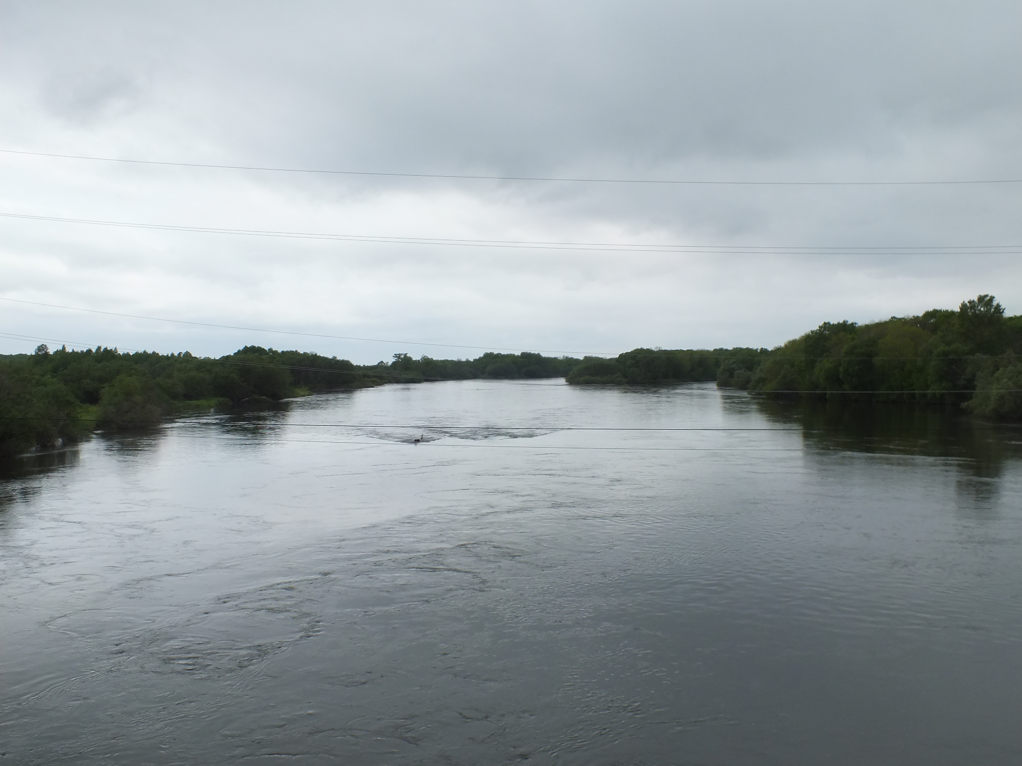 Anyui River